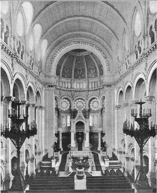 Inside the Great Synagogue of Paris (Rue de la Victoire)